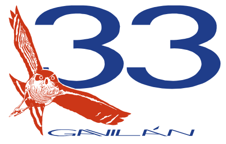 Logo of the Akaflieg Stuttgart fs33 Gavilán sailplane.